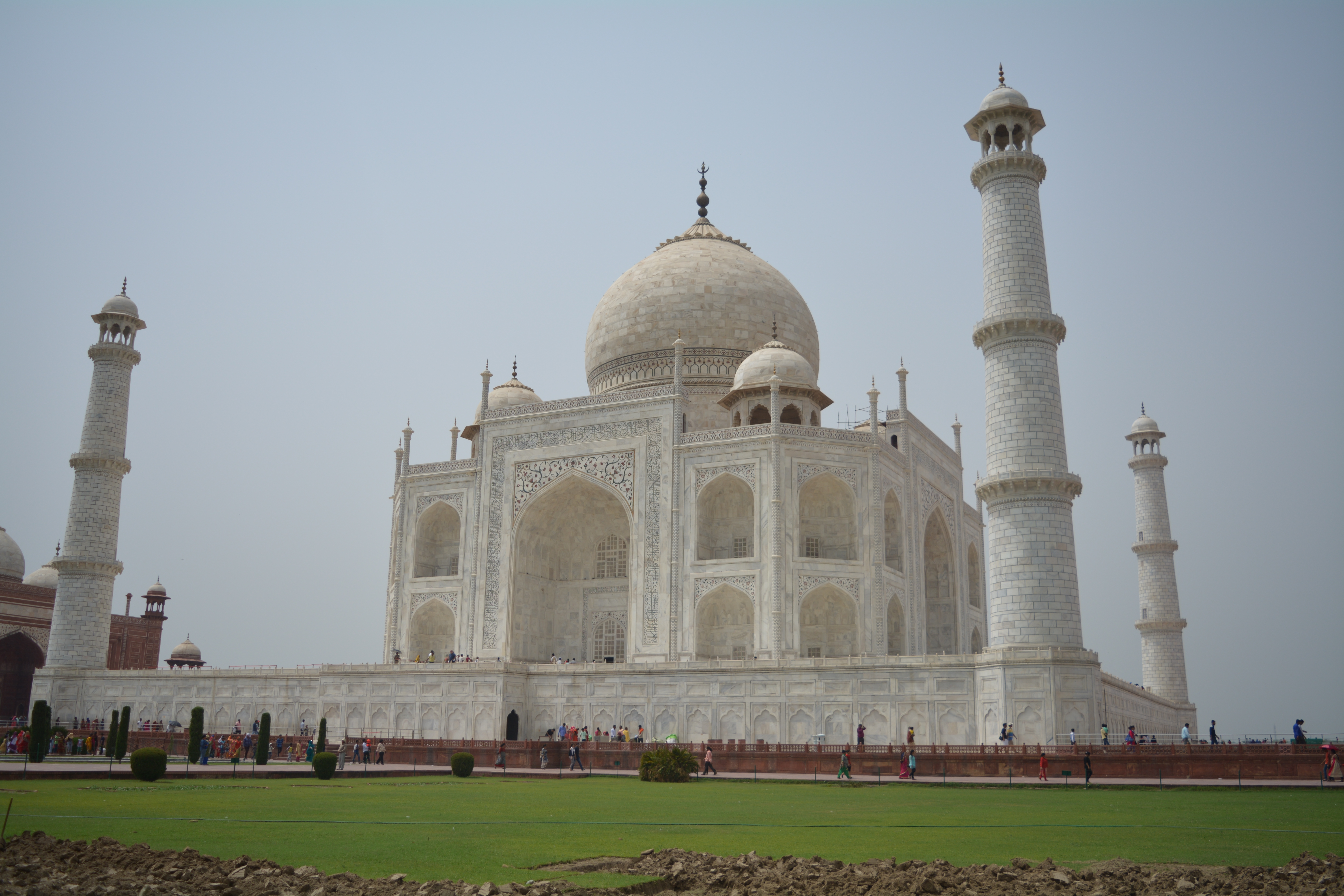 beauty of taj can only be felt by heart.